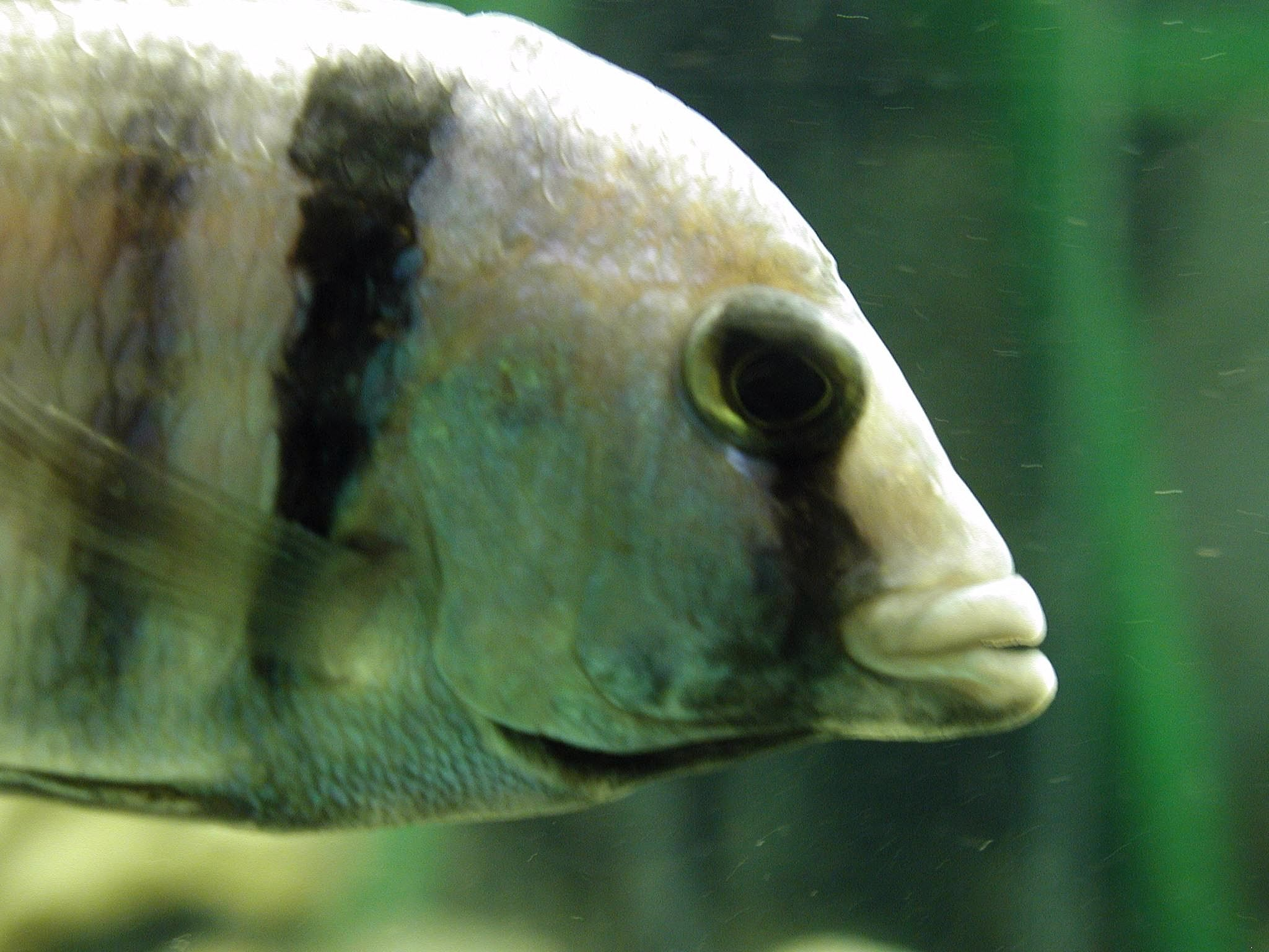 Image title: Fish head Image from Public domain images website